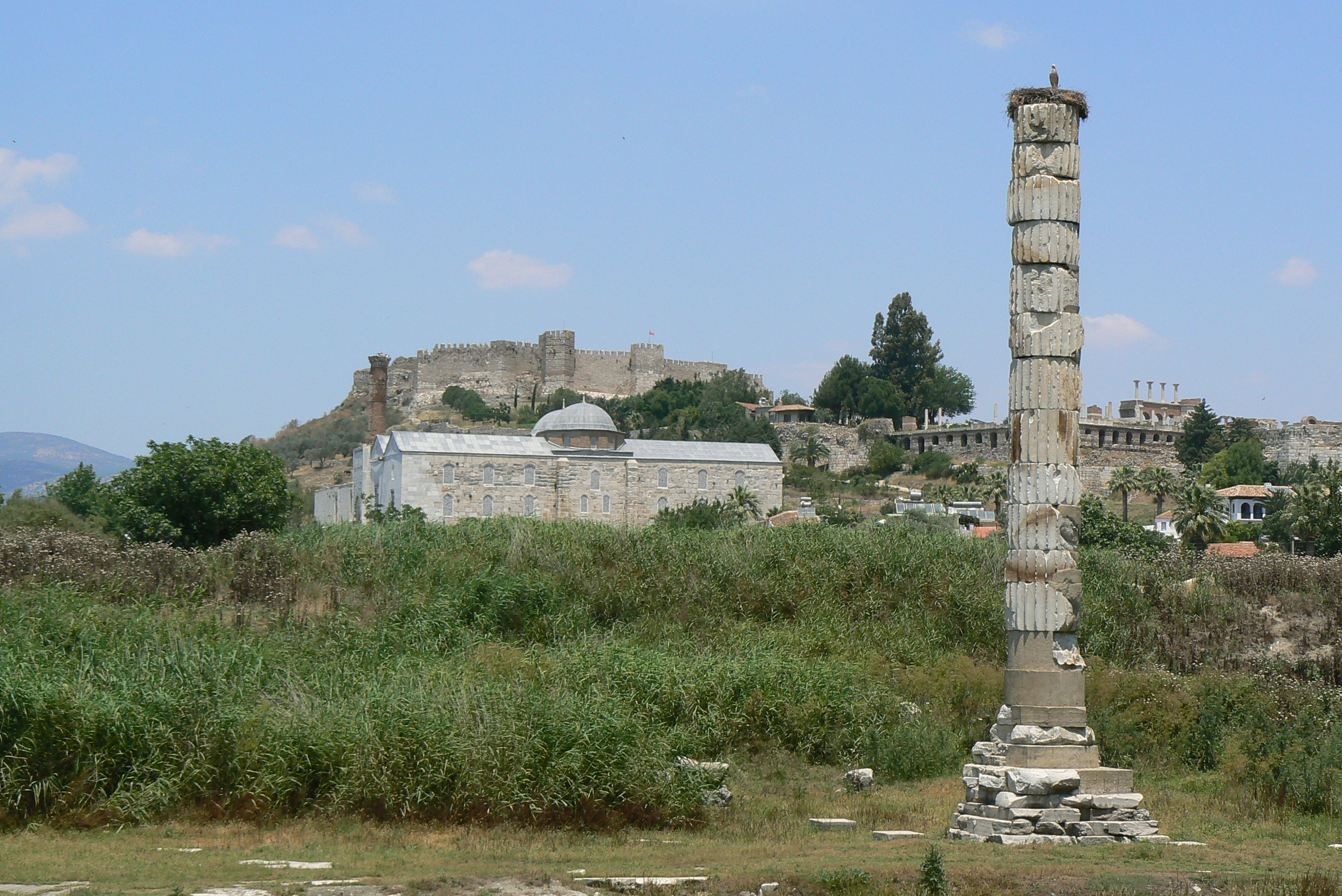 Ephesus, Temple of Artemis